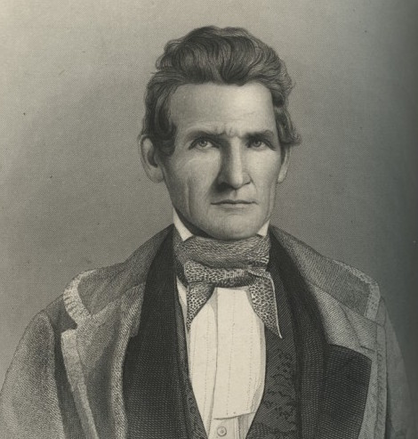 John Pope (July 16, 1794-March 27, 1865), engraving, by J.C. Buttre, after a daguerreotype, from John Livingston, Portraits of Eminent Americans Now Living: With biographical and historical memoirs of their lives and actions , II (London: Sampson, Low, Son & Co., 1853-1854).